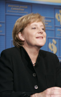 Chancellor Angela Merkel during the American Jewish Committee's Centennial Dinner Thursday, May 4, 2006, at the National Building Museum in Washington, D.C.